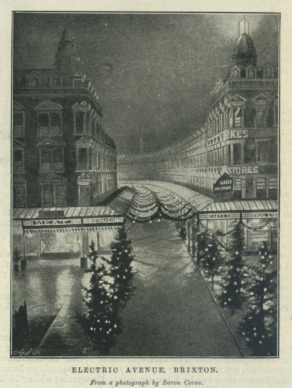 Electric Avenue, a street in Brixton, London, in 1895, by Frederick Rolfe (credited as "Baron Corvo"). Text that accompanied the image reads: The Electric Avenue is familiar to all Brixtonians, but very few have witnessed any attempt to photograph it by night. The Baron Corvo has done, with what success the accompanying reduced reproduction of his photograph shows. Scan sourced here.